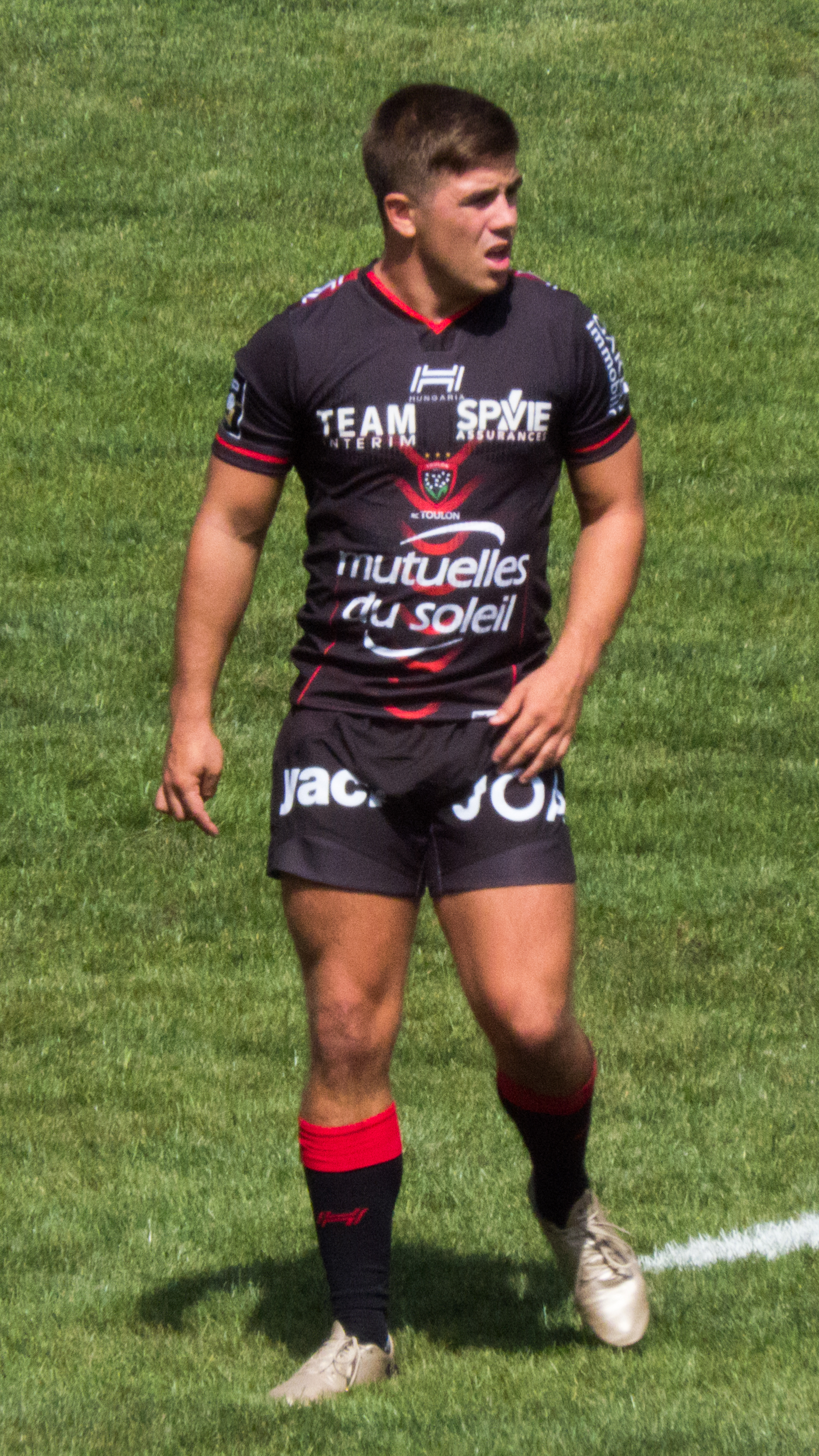 2008–09 Super 10 season — 1 September 2018, Stade du Hameau. Match between: Section Paloise — RC Toulonnais